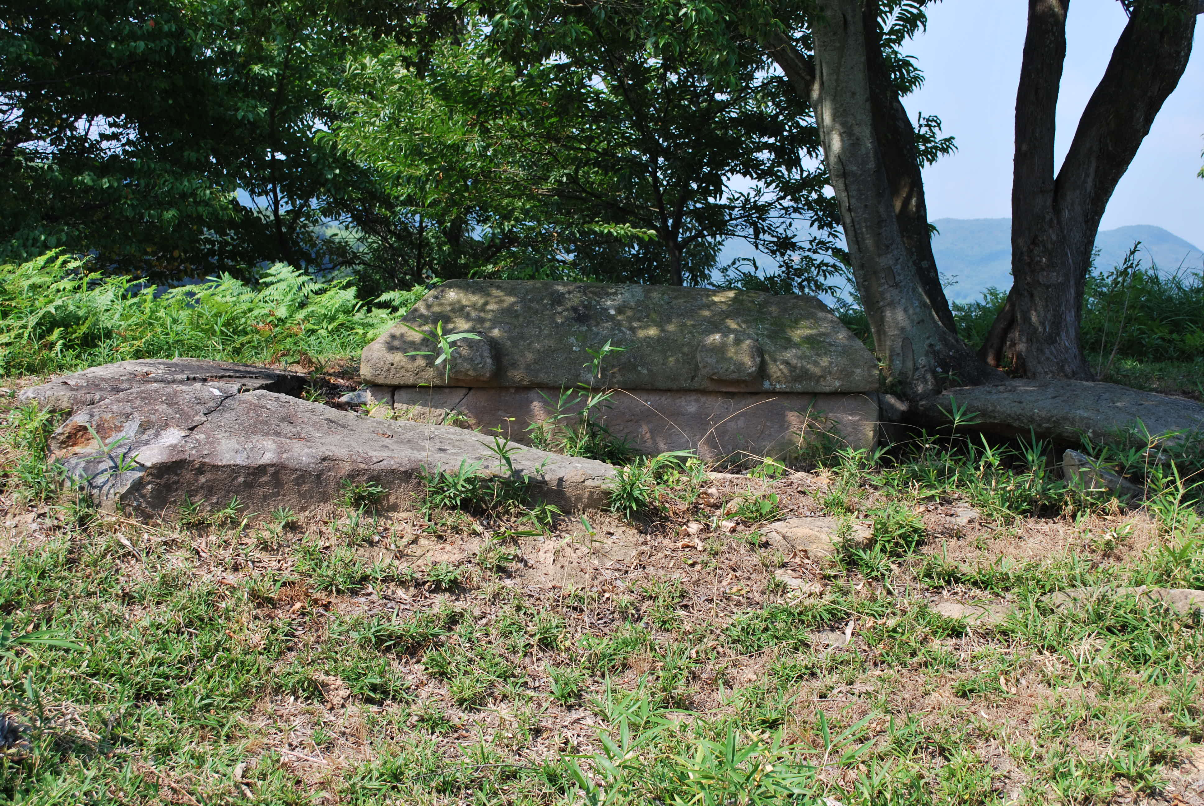 Top of kouen part and Stone coffin, Tsukiyama kofun